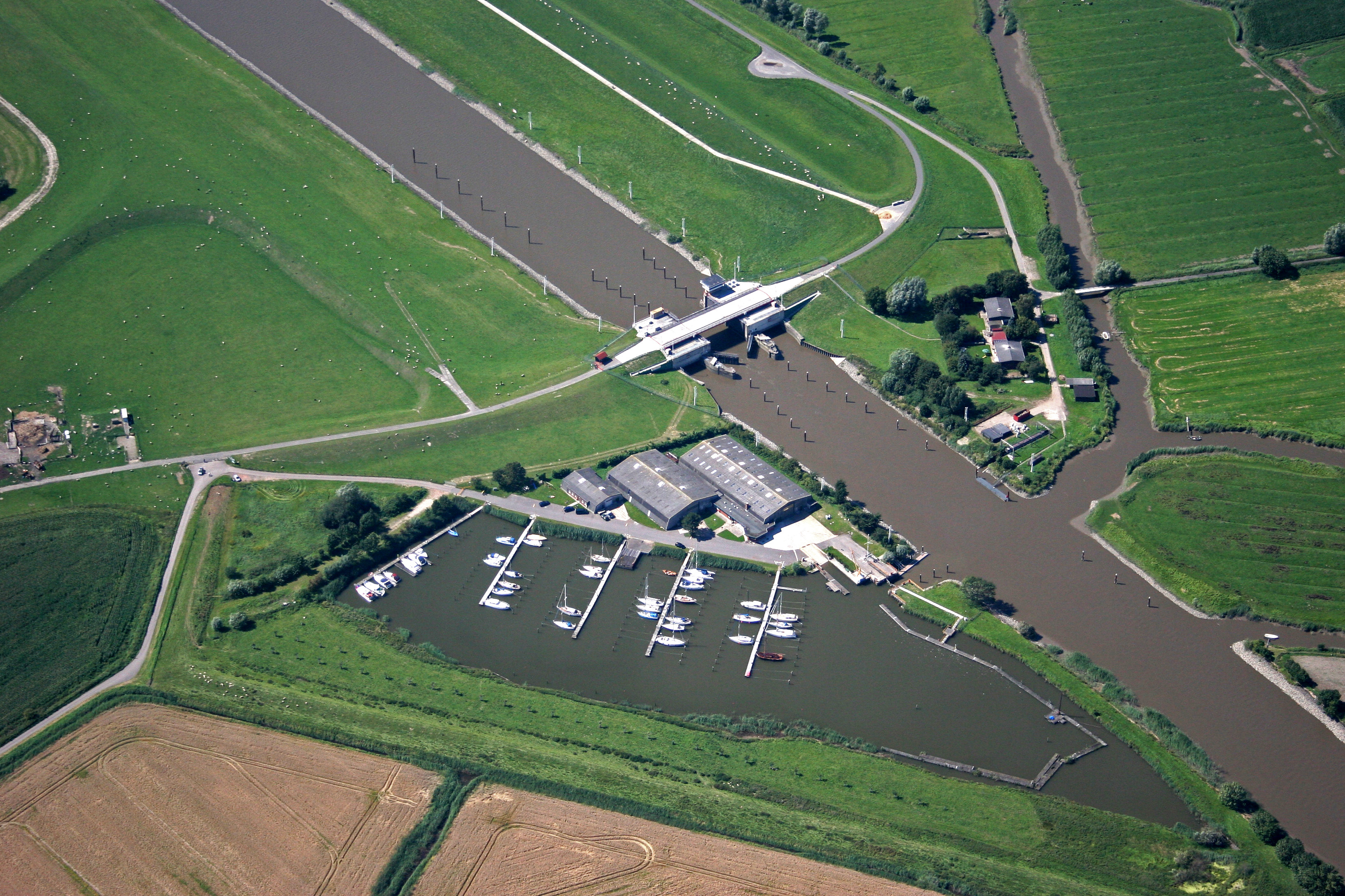 Krückau river flood barrier and marina near the Elbe river